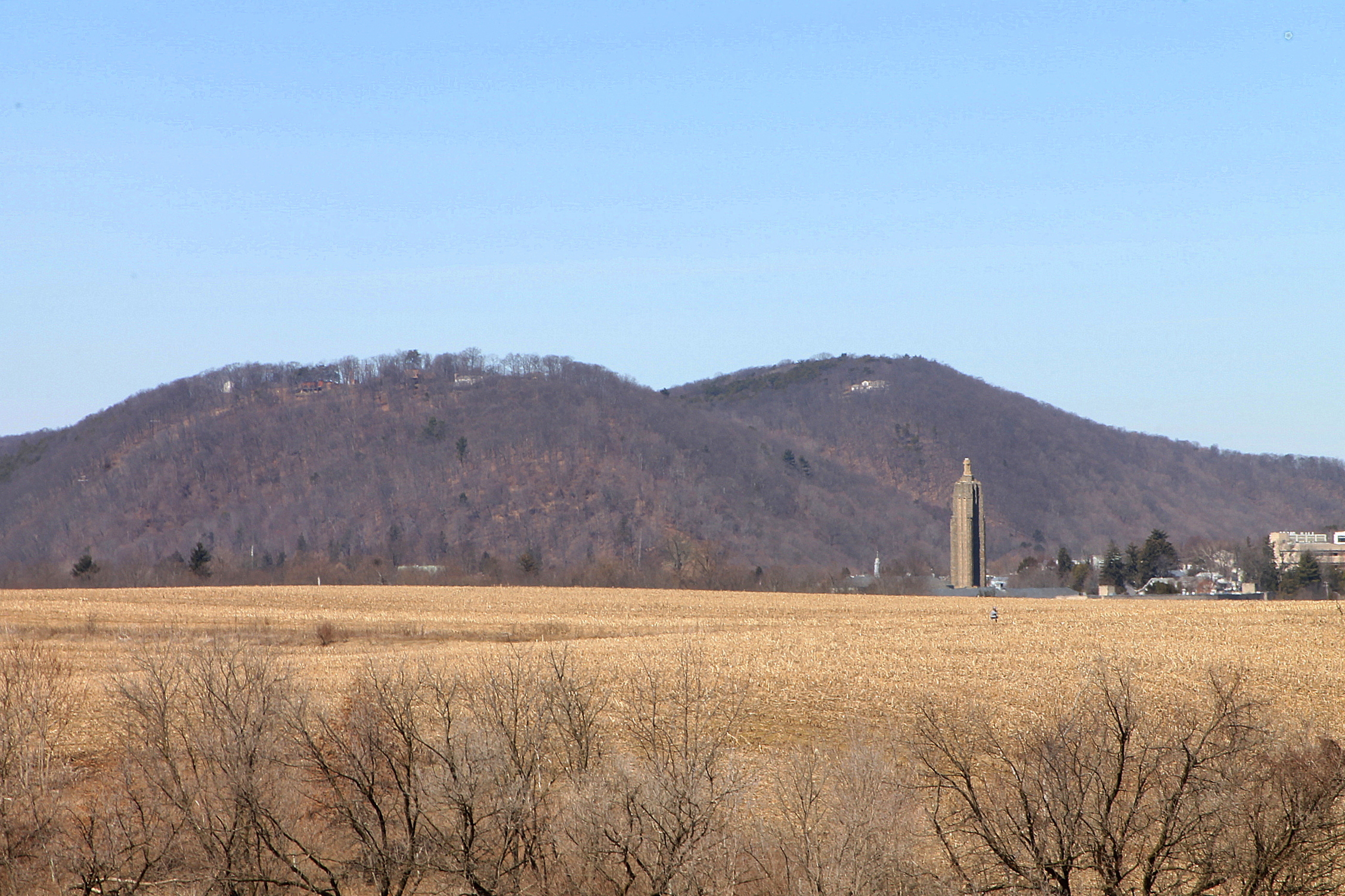 Montour Ridge from Clinic Road. The tower is part of St. Cyril's Academy.